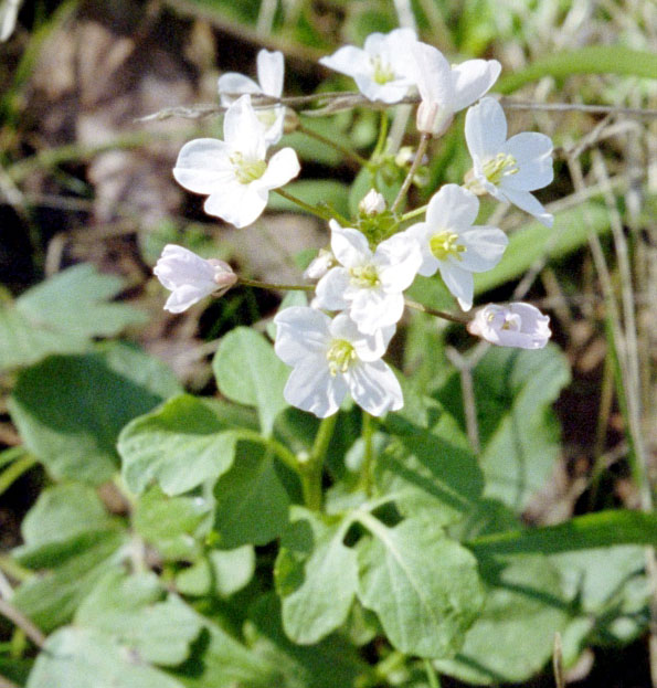 Cardamine californica, Milkmaids, taken March 4, 2006, Henry Coe park, San Jose, California by User:Elf